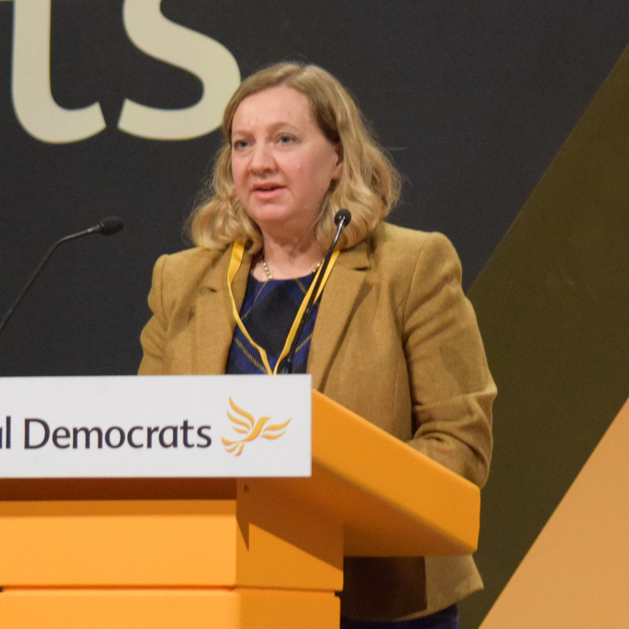 Lucy Nethsingha addressing a Liberal Democrat conference in the The Barbican Centre, York, prior to being elected Member of the European Parliament